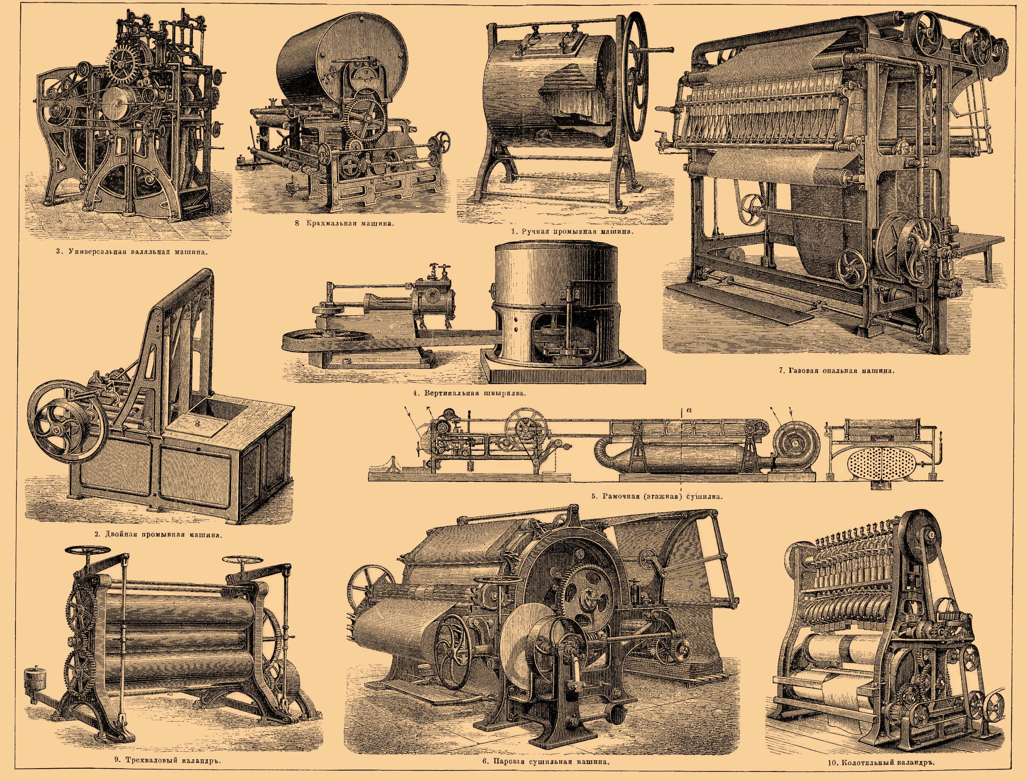 Illustration from Brockhaus and Efron Encyclopedic Dictionary (1890—1907)